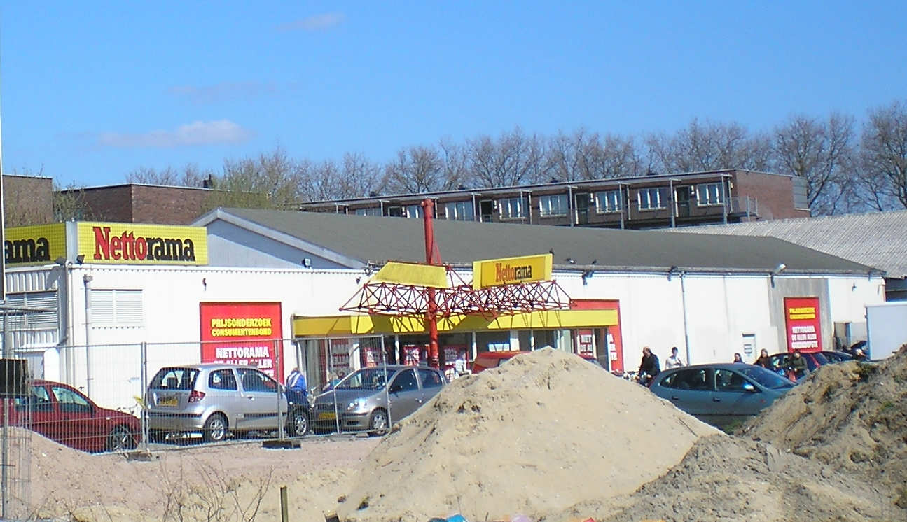 Nettorama the Groeneweg 50 in Utrecht, Netherlands